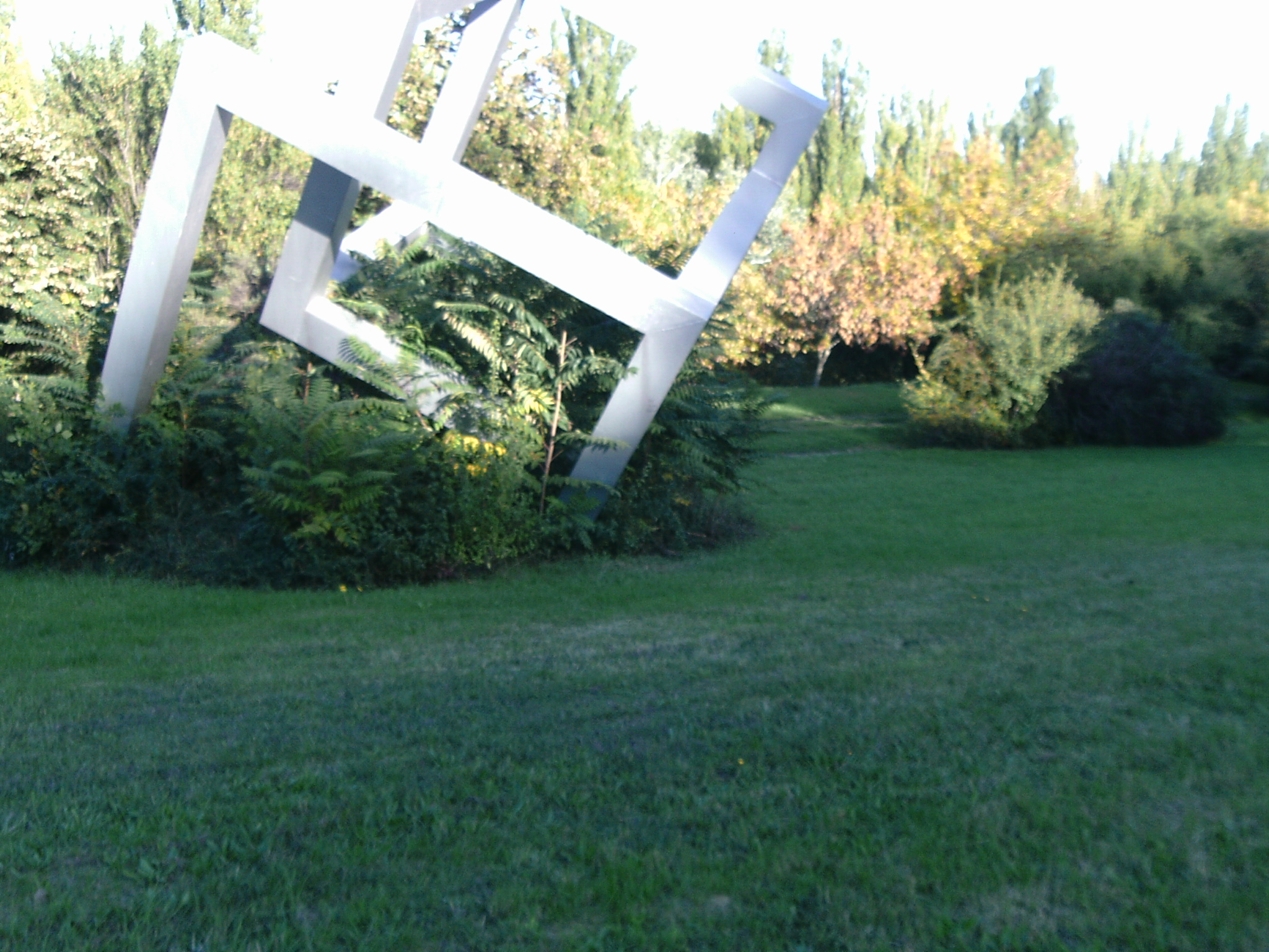 Dunaujvaros, Hungary